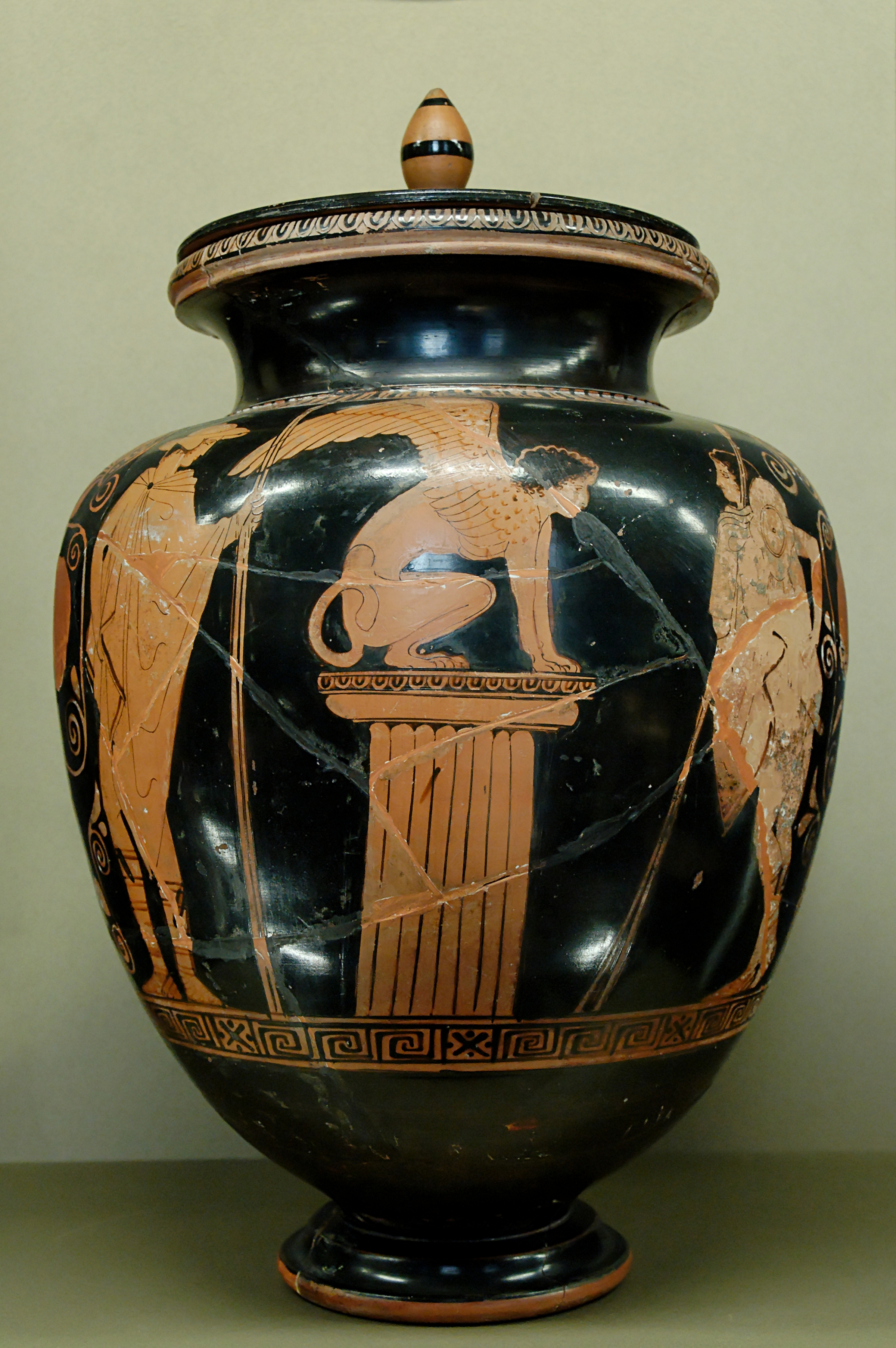 Oedipus (on the right), the Sphinx (on the middle) and Hermes (on the left). Attic red-figure stamnos, ca. 440 BC.